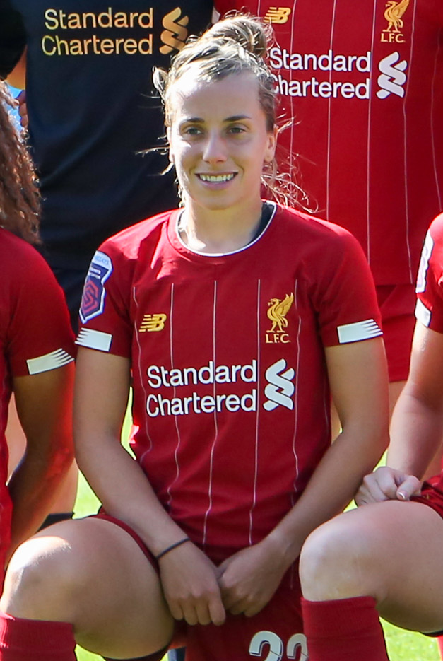 2019–20 FA WSL: Tottenham Hotspur FC Women v Liverpool FC Women, 15 September 2019 – Liverpool starting line-up.